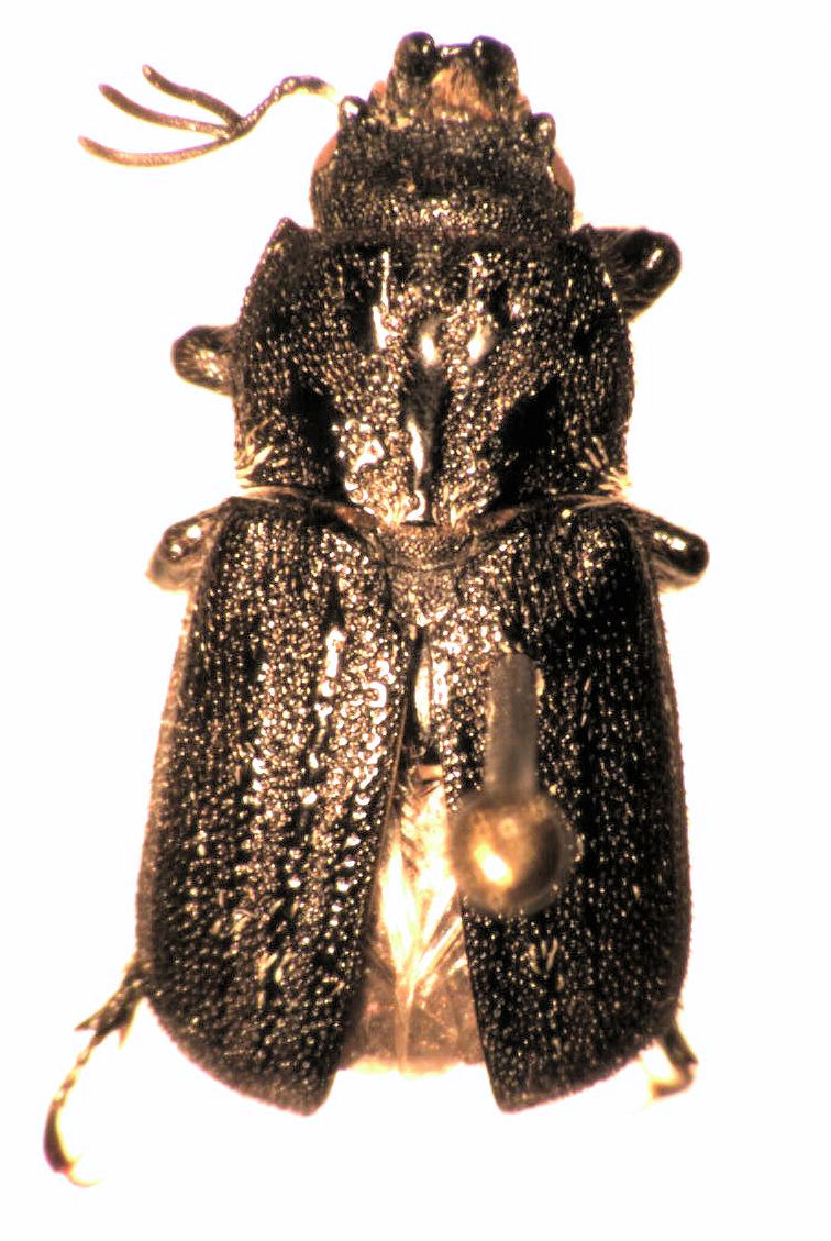 adult male Holloceratognathus helotoides